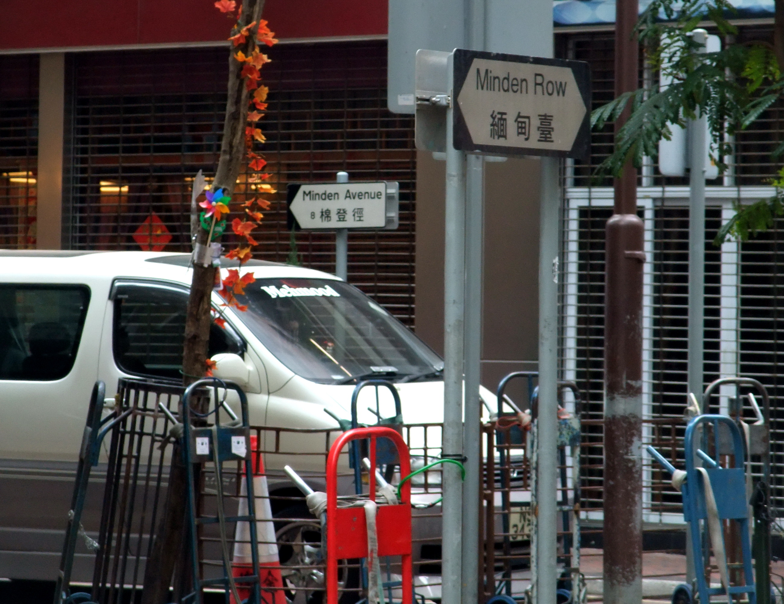 Minden Row and Minden Avenue in Tsim Sha Tsui, Kowloon, Hong Kong.